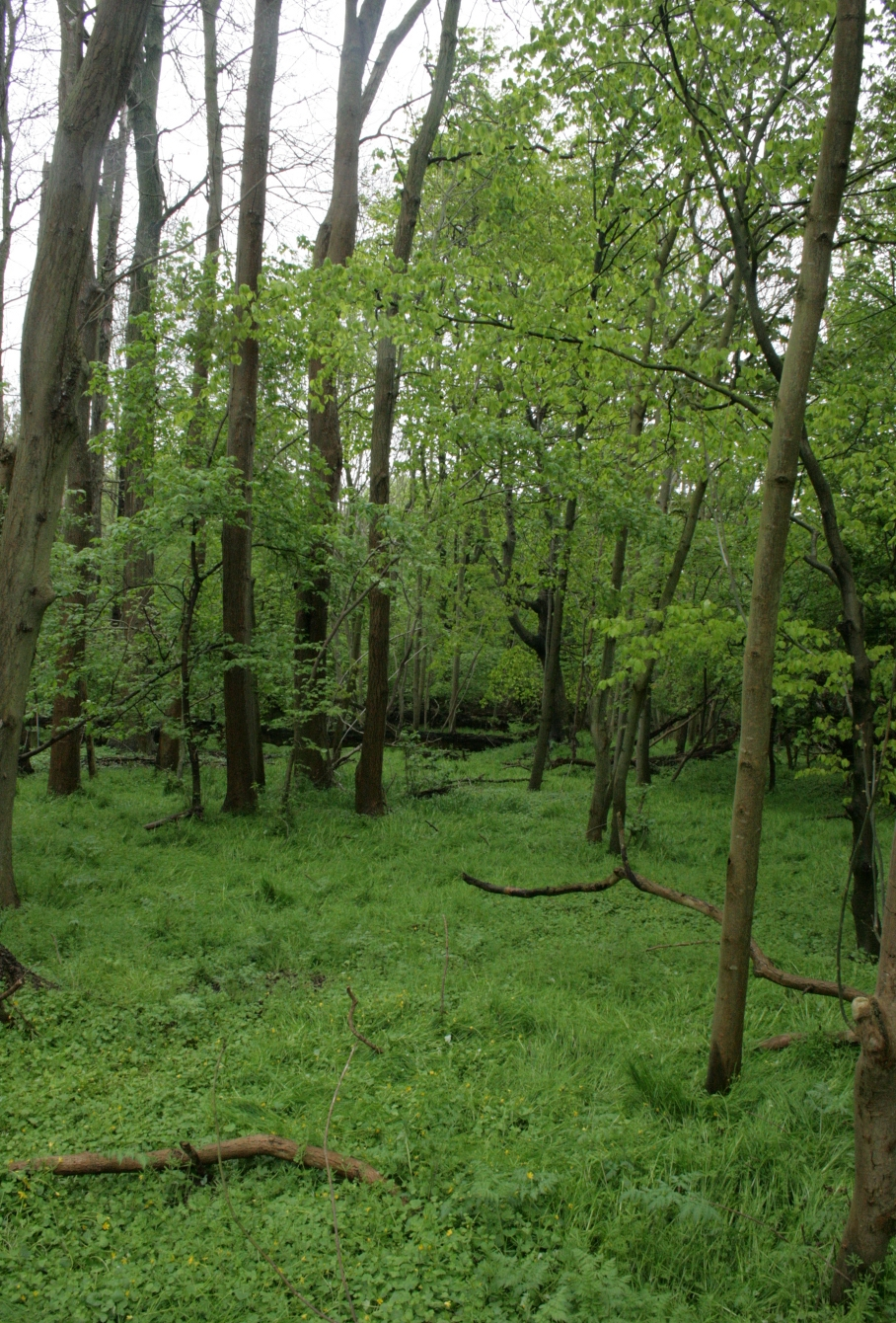 At the small nature reservation on the island of Vorsø, Denmark, the old forest has developed so that newgrowth is dominated by Fraxinus excelsior.